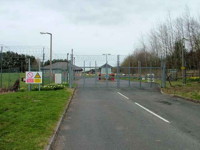 No way in. The southern entrance to Otterburn MOD camp. This entrance is no longer in use.